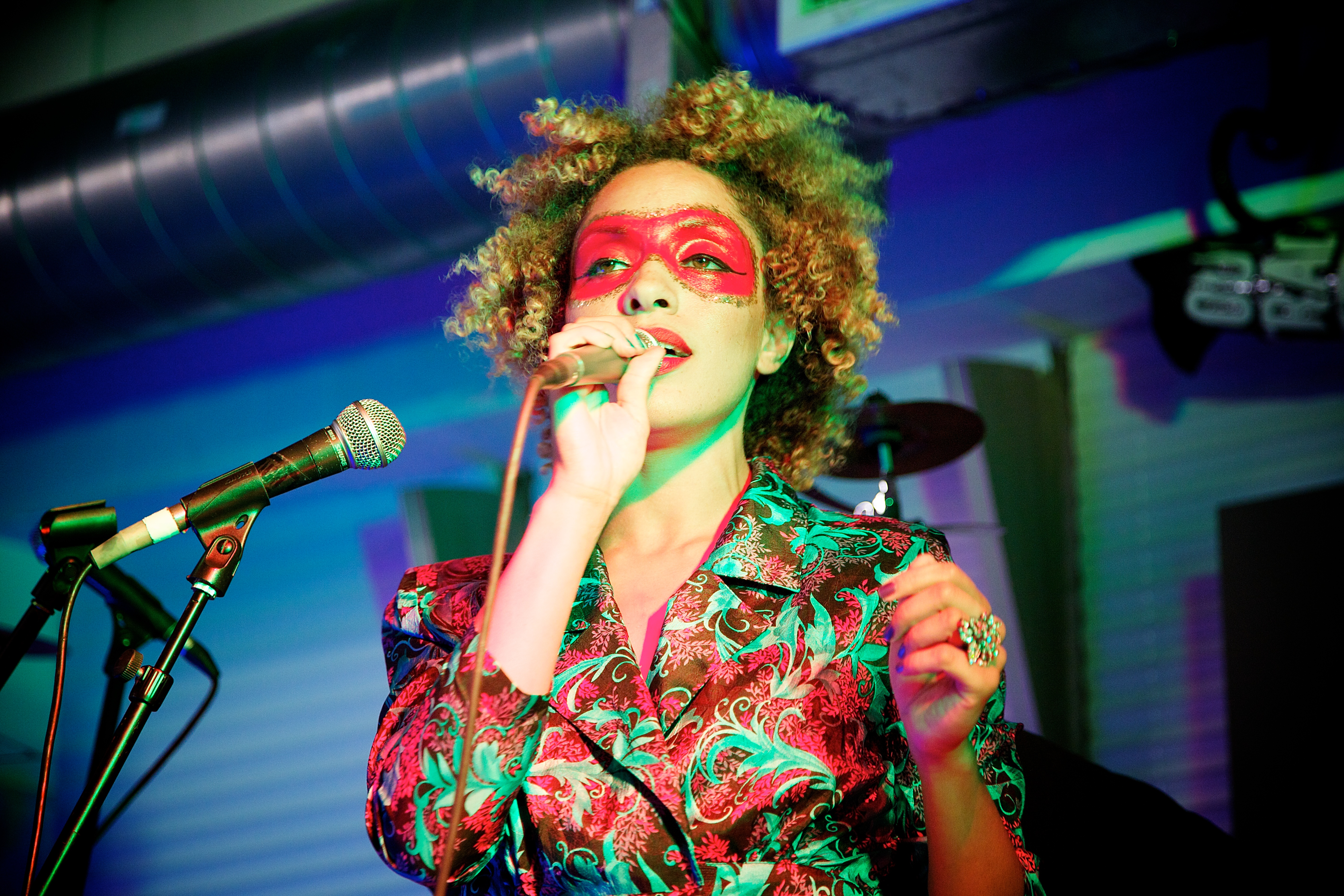 Martina Topley-Bird at Rough Trade East, Brick Lane, London.